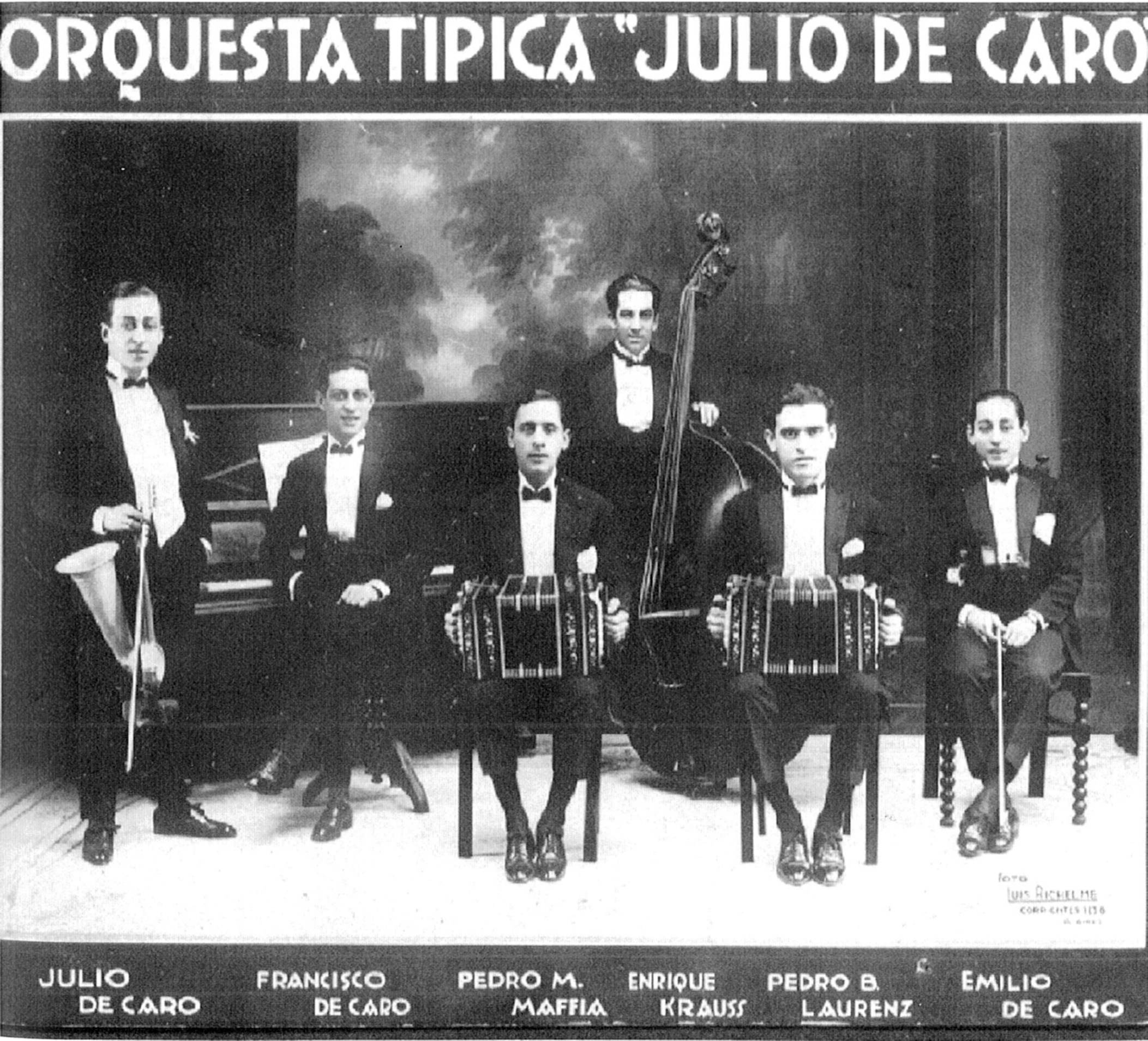 Violinplayer Julio De Caro with his Orchestra